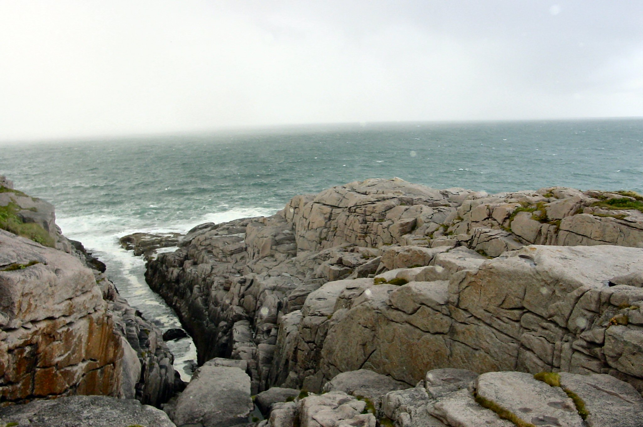 Knivskjellodden is the northernmost point of Europe when including coastal islands, just over a kilometre north of North Cape, which gets all the tourist traffic. A walking trail of about 9 kilometres each way takes you there.